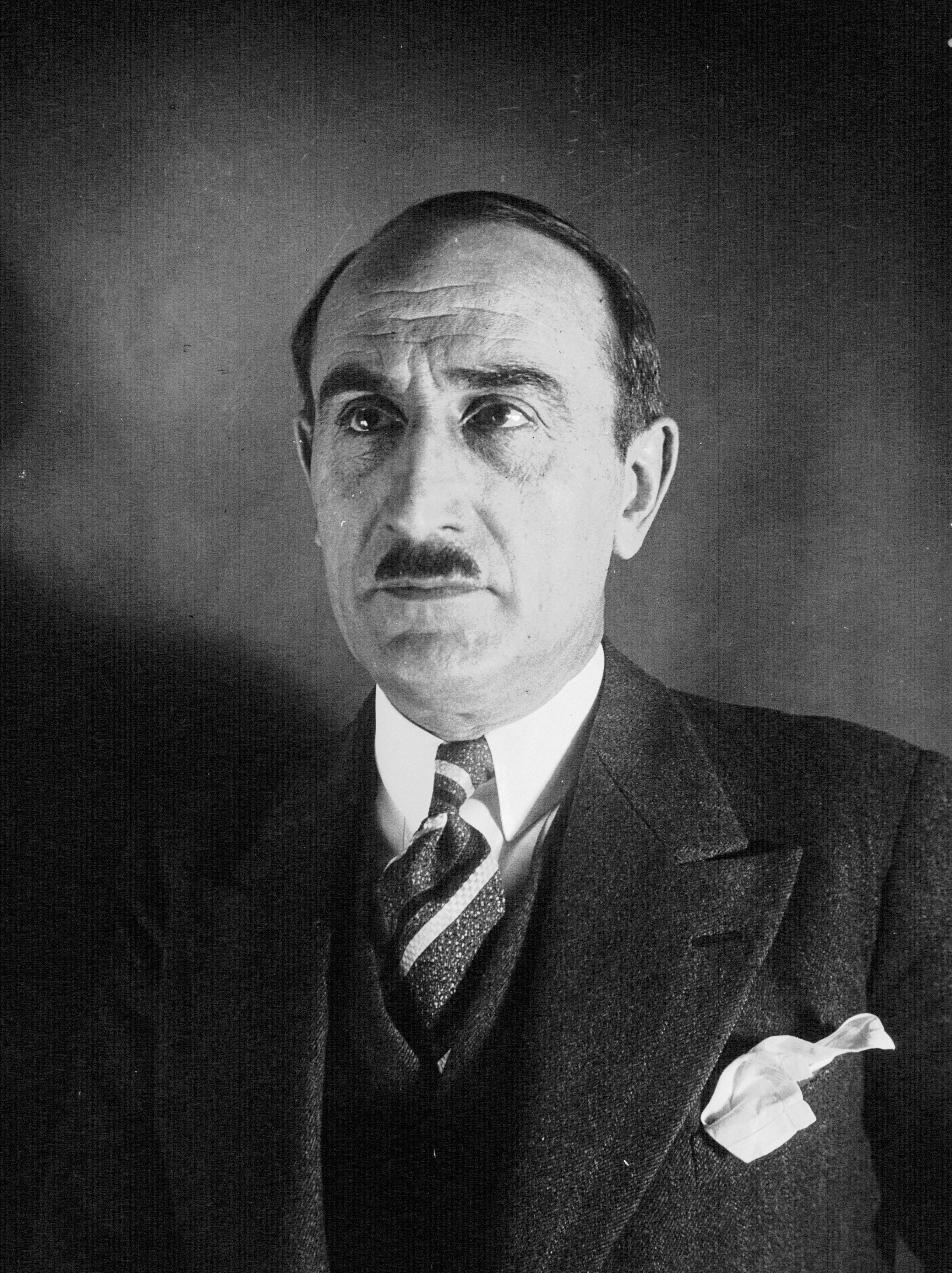 French politician Adrien Marquet (1884-1955).